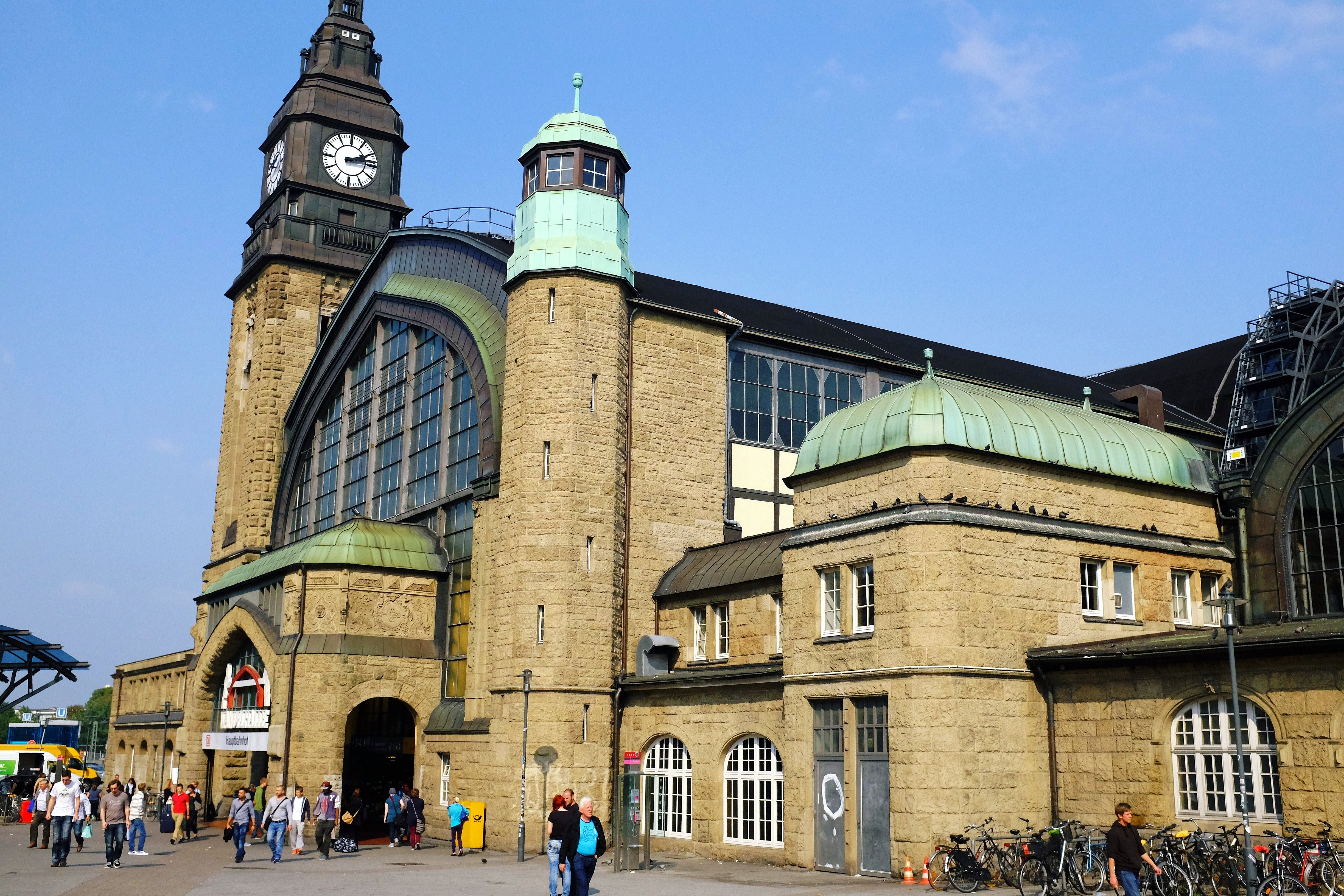 Hamburg main train station